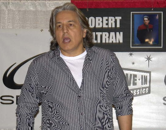 Robert Beltran at Science Fiction Expo 2007 on August 24, 2007.